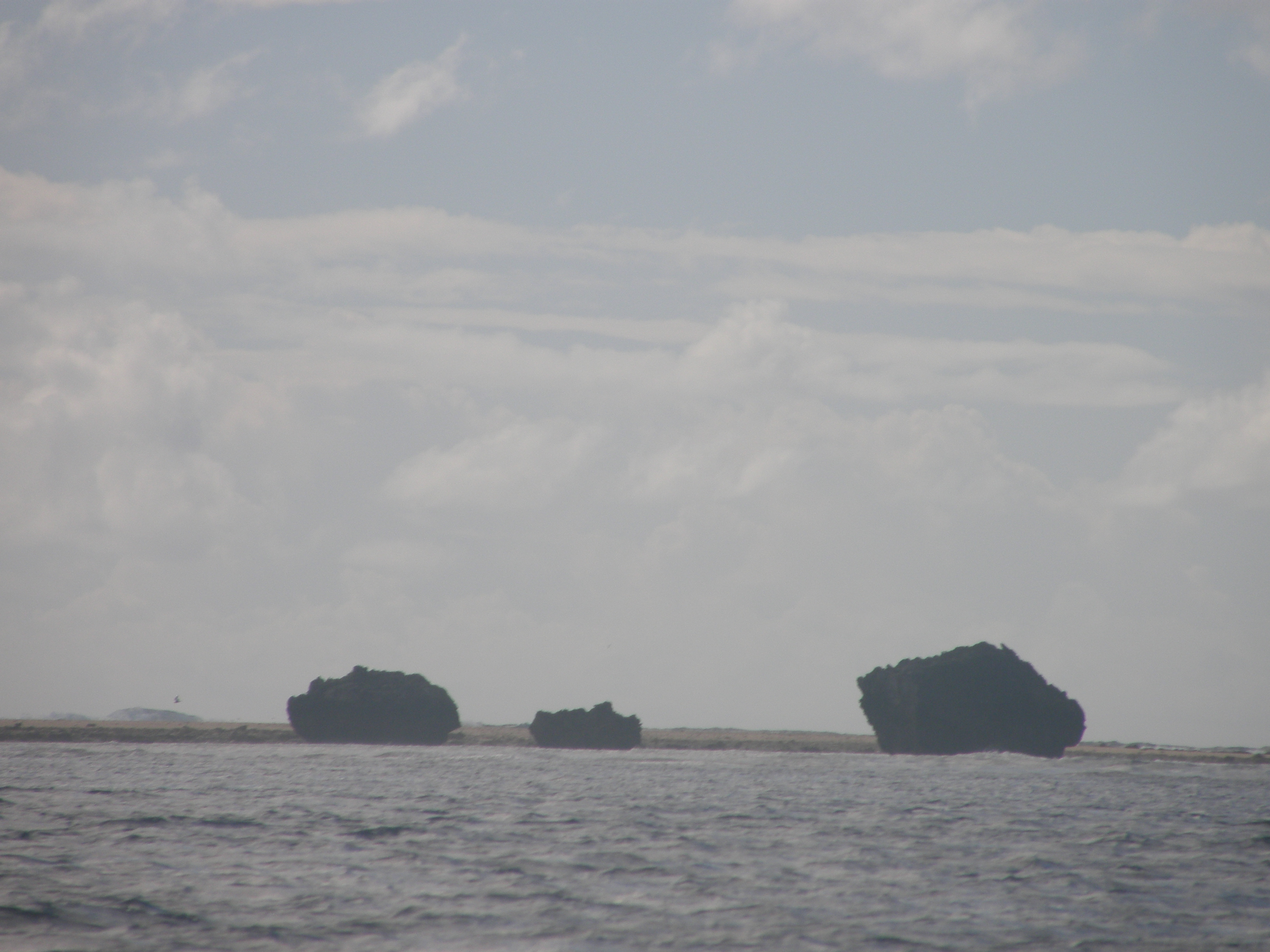 Part of the ocean reef of Makin island, Kiribati